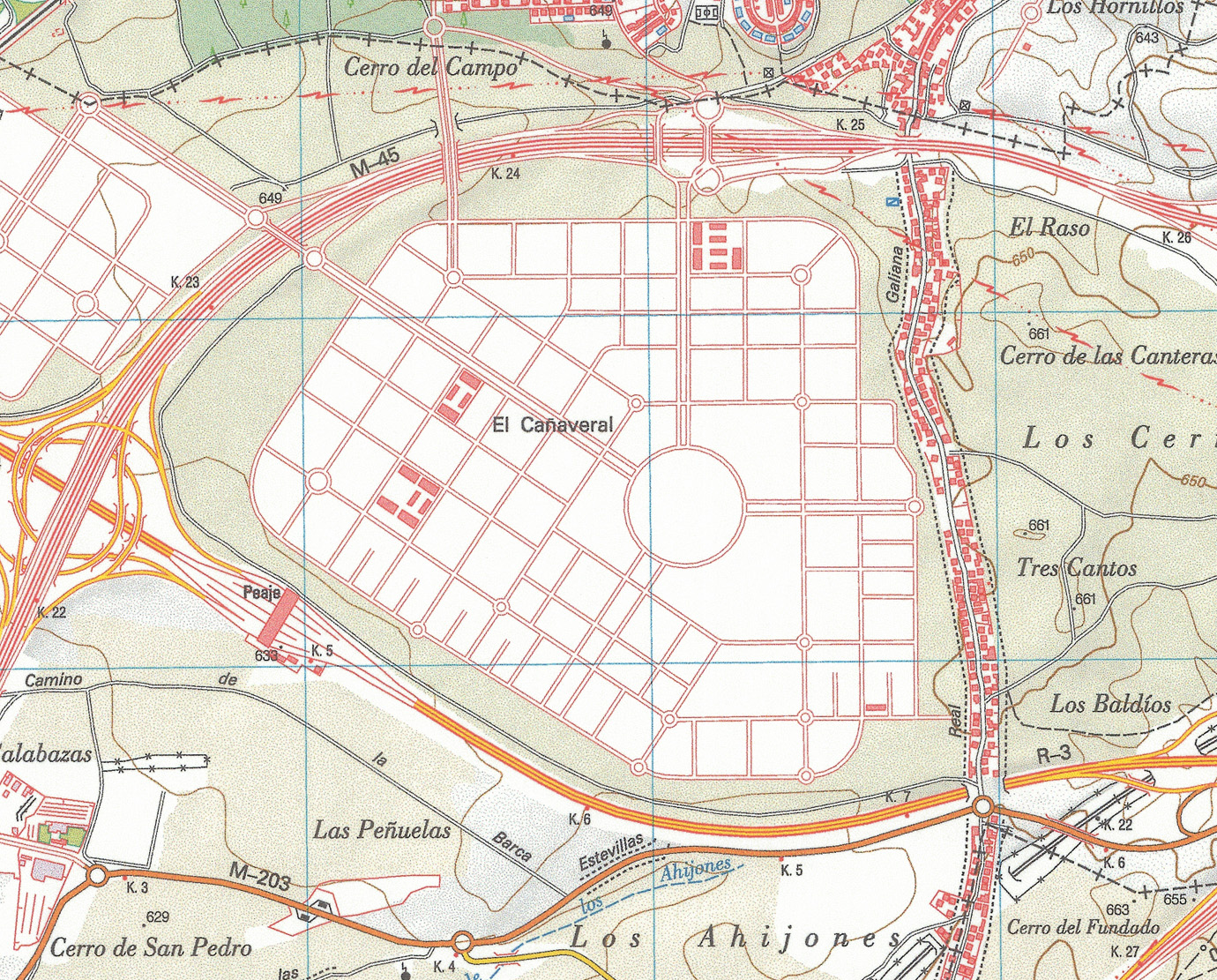 Fragment 0559c4 of the National Topographic Map of Spain in 2015 at a scale of 1:25000 printed and scanned with a resolution of 250 ppi. It shows Madrid Sureste.